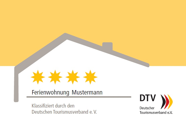 individualisierbares Klassifizierungsschild im neues Design der DTV-Klassifizierung (seit 2013)